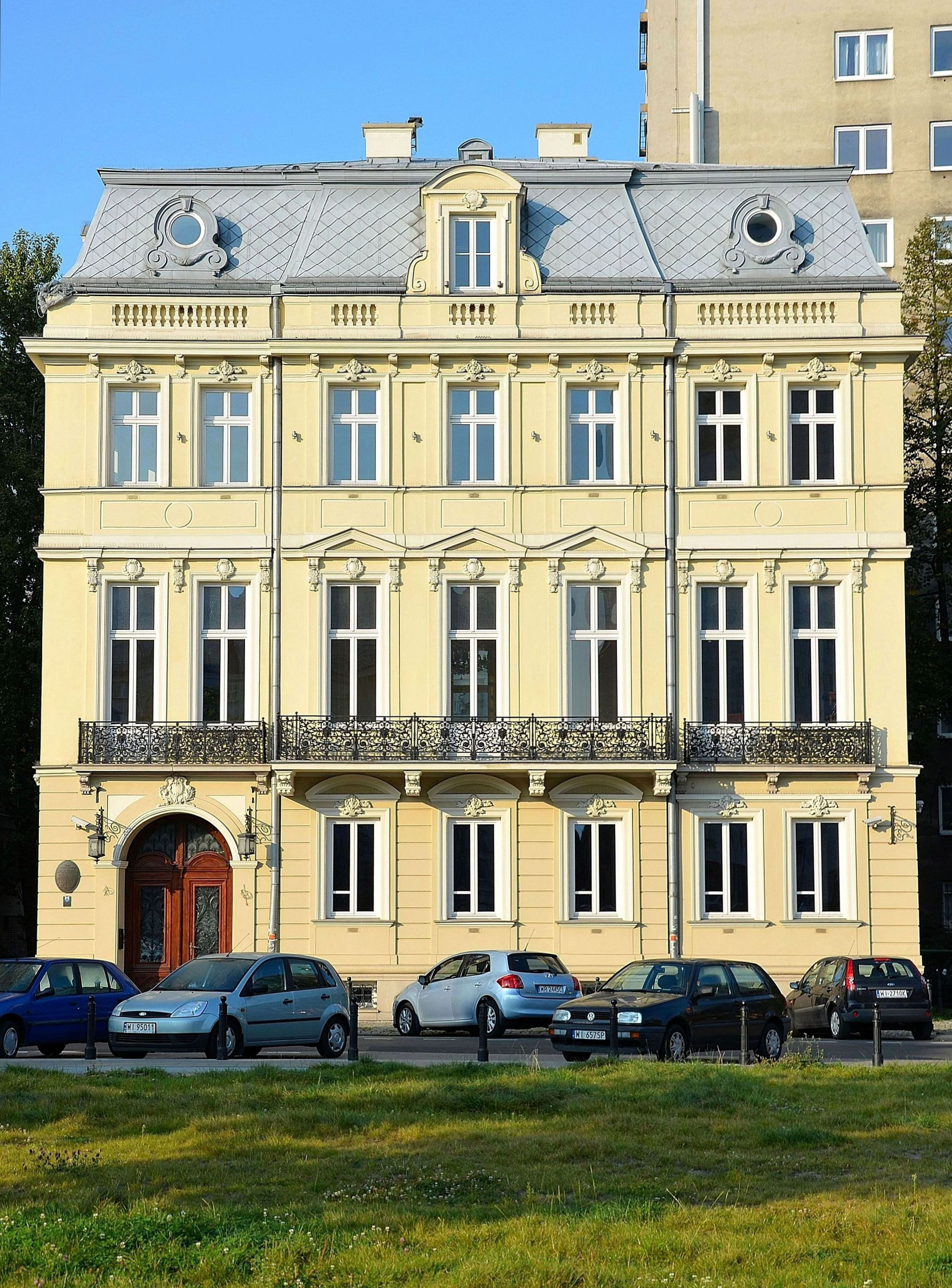 Janaszów Palace in Warsaw (49 Zielna Street)